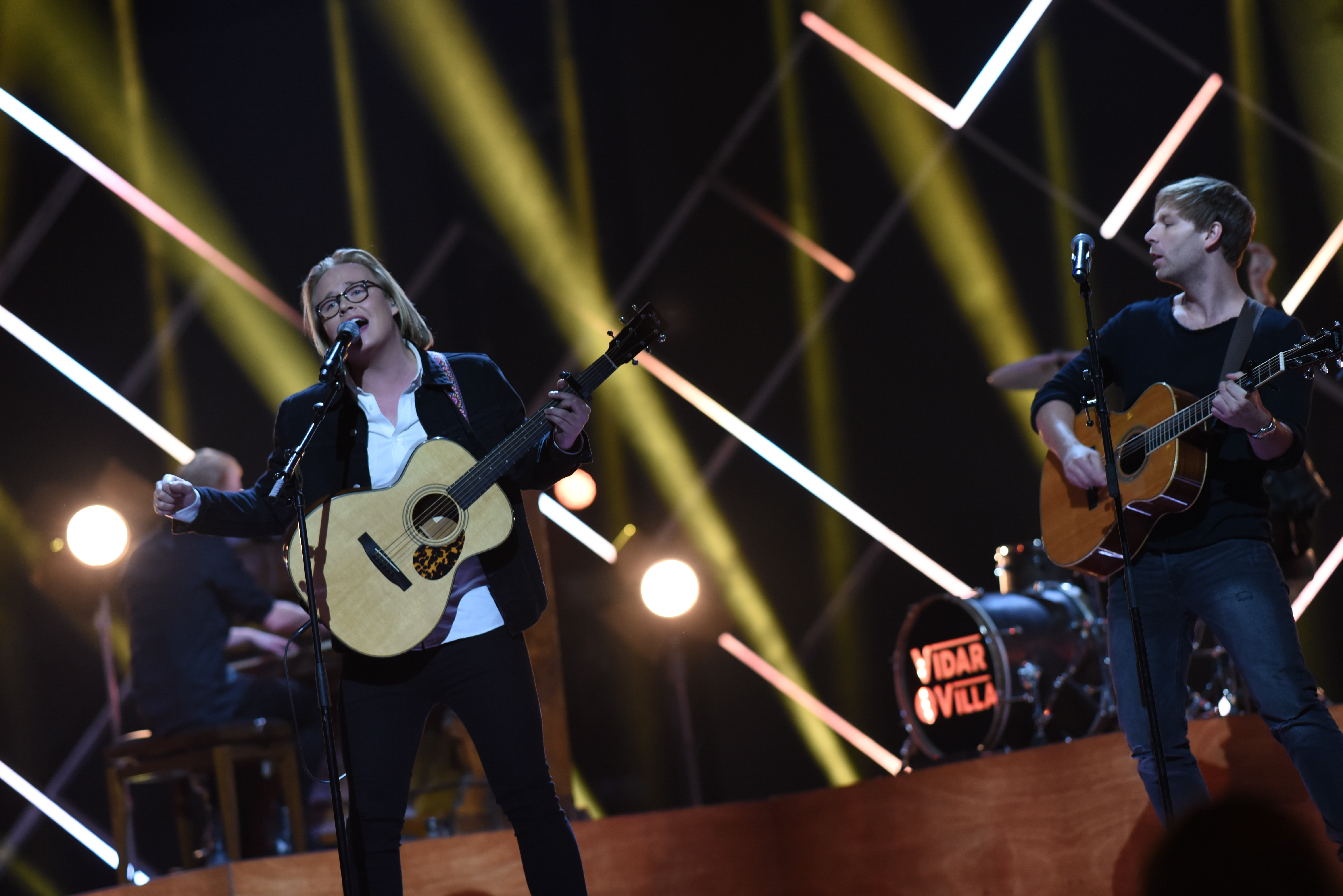 Melodi Grand Prix 2018